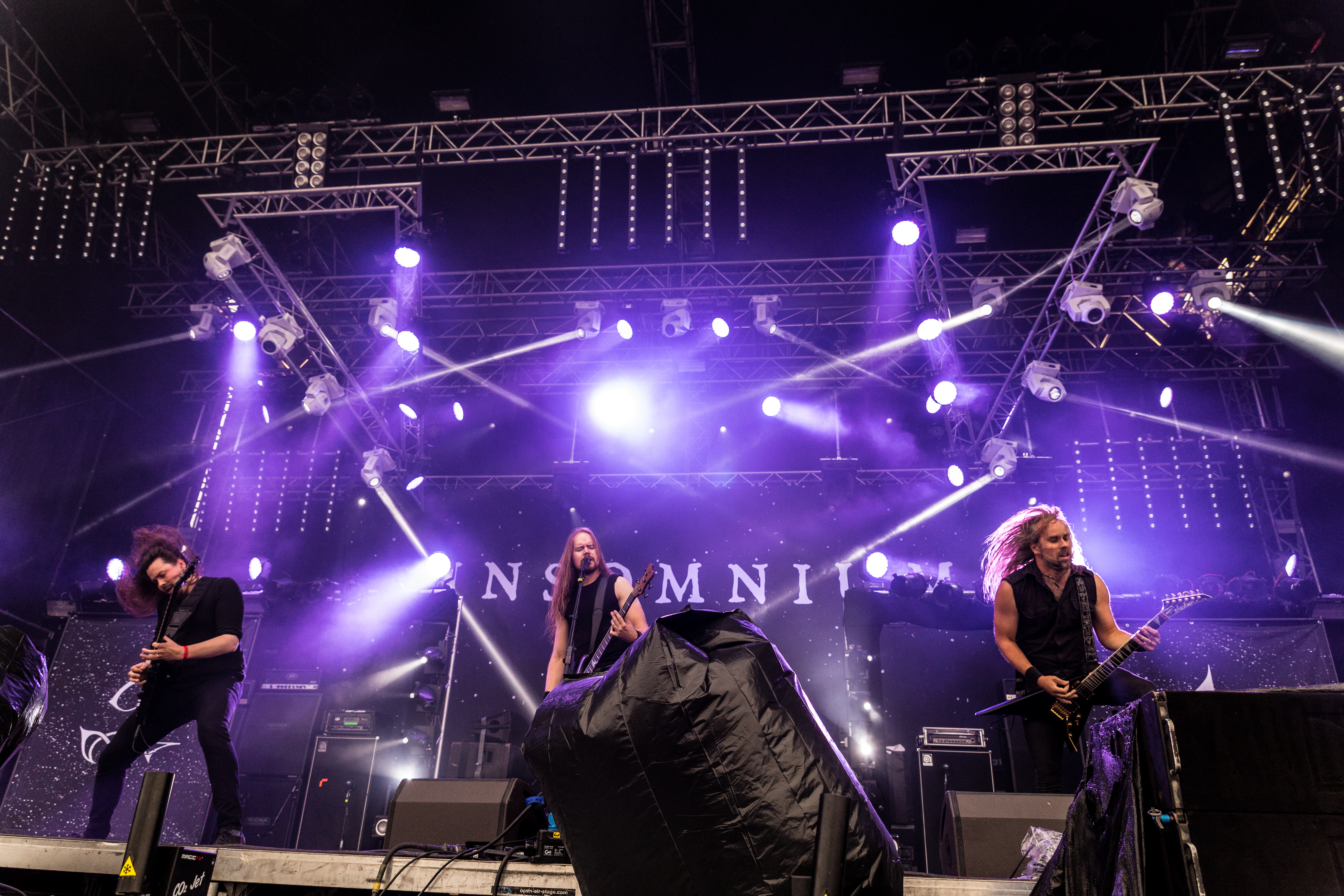 The Finnish melodic death metal band Insomnium at the Party.San Metal Open Air 2017 in Obermehler-Schlotheim/Germany.